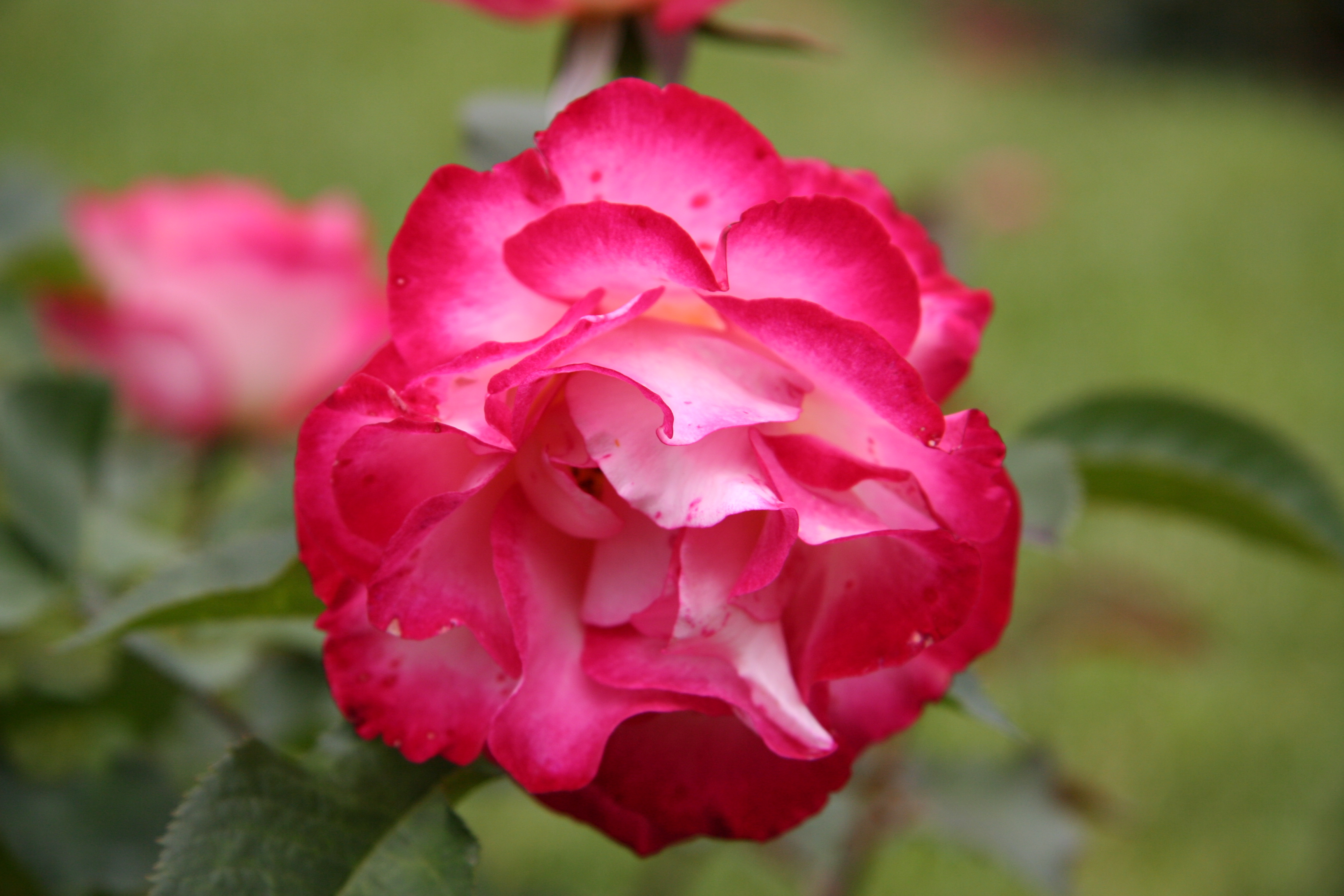 Novaia rose - Bagatelle Rose Garden (Paris, France).